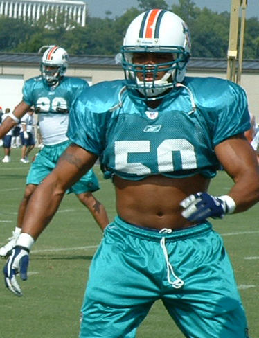 If used somewhere other than Wikipedia, Nelson, by name.